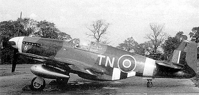 Photograph of Mustang III flown by Wing Commander Nowierski, Wingco of 133(Polish) Wing